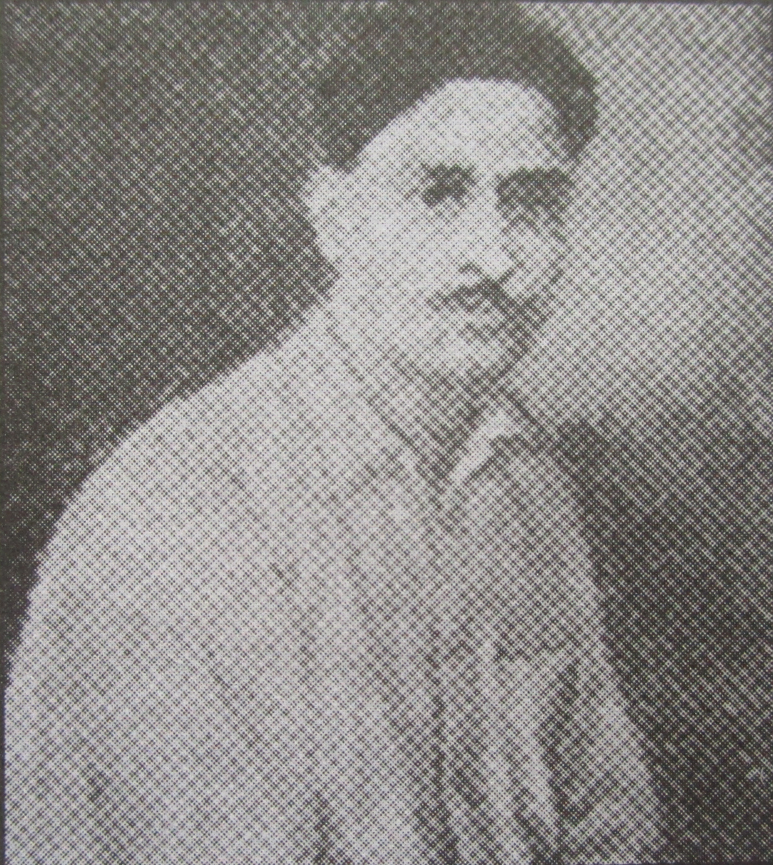 Naresh Roy